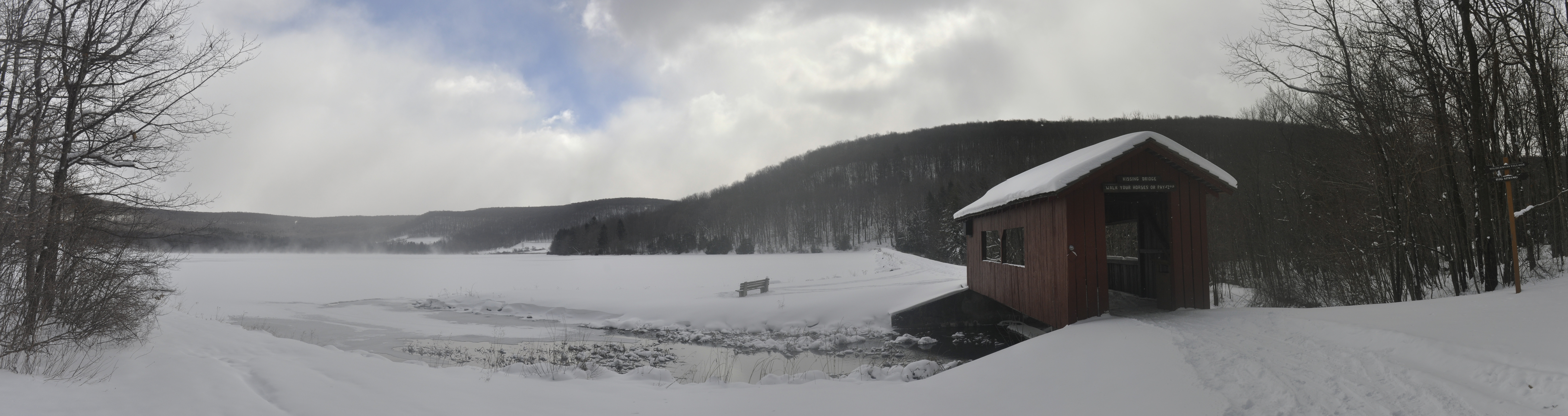 Deer Valley YMCA Family Camp: Kissing Bridge - 4.jpg